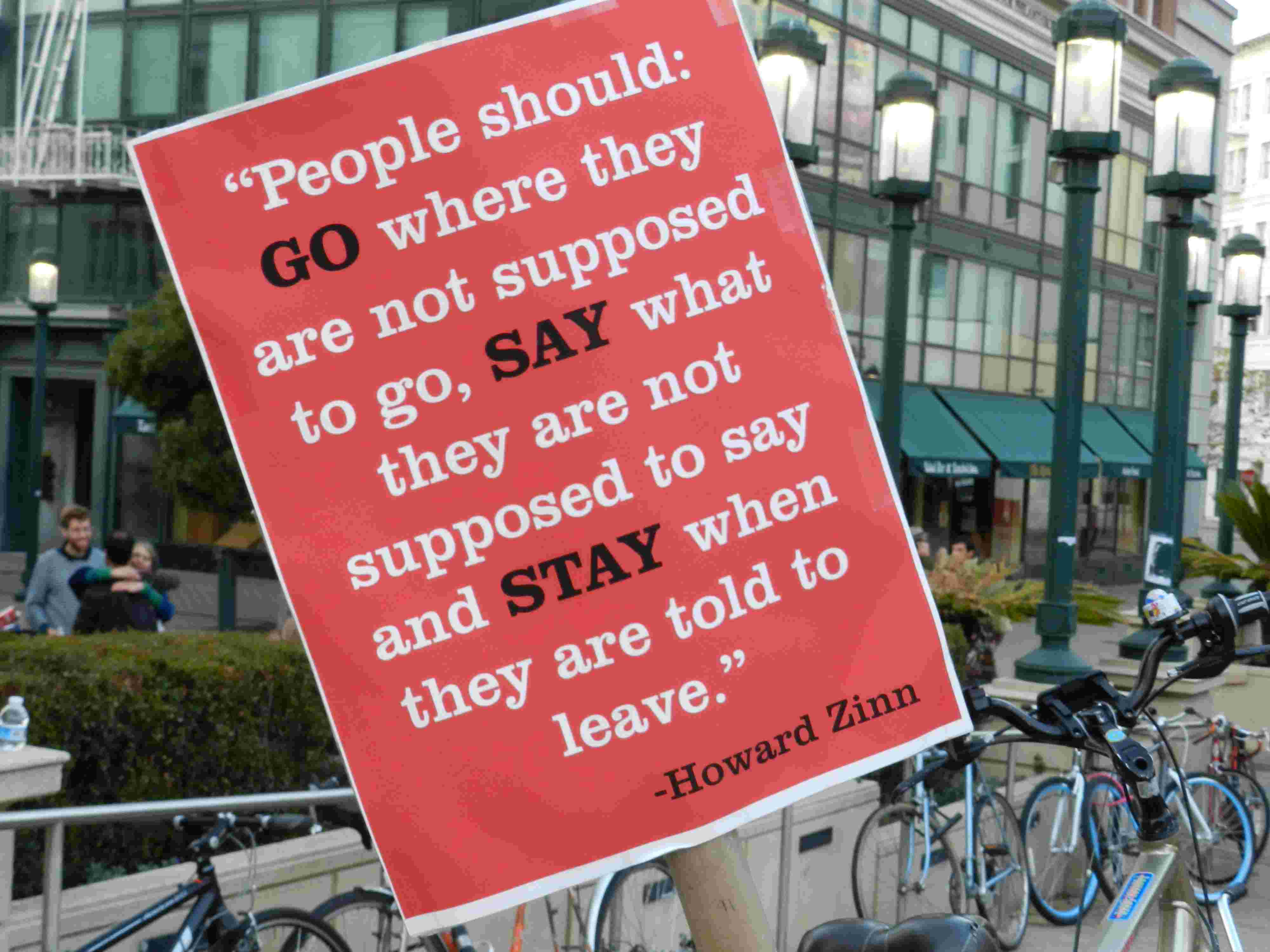 Occupy Oakland, November 12 2011, afternoon. howard zinn quote